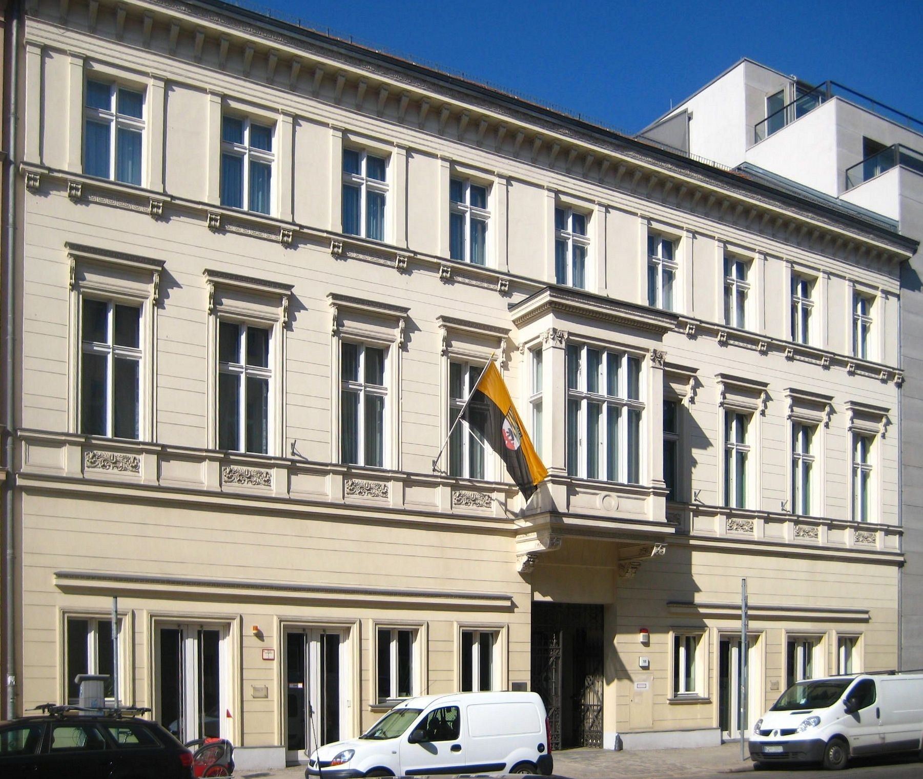 Representation of the state of Saxony-Anhalt at Luisenstraße No. 18 in Berlin-Mitte. The building was constructed from 1827 to 1828 as a residential building. It has been designated as a historic landmark.